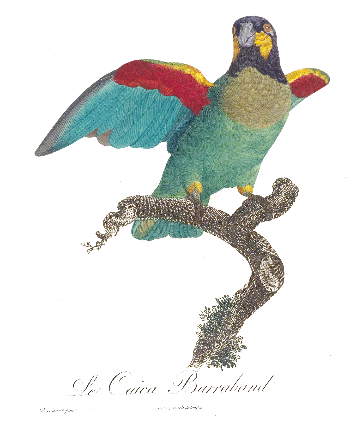 Orange-cheeked Parrot (Pyrilia barrabandi). Le Caica Barraband